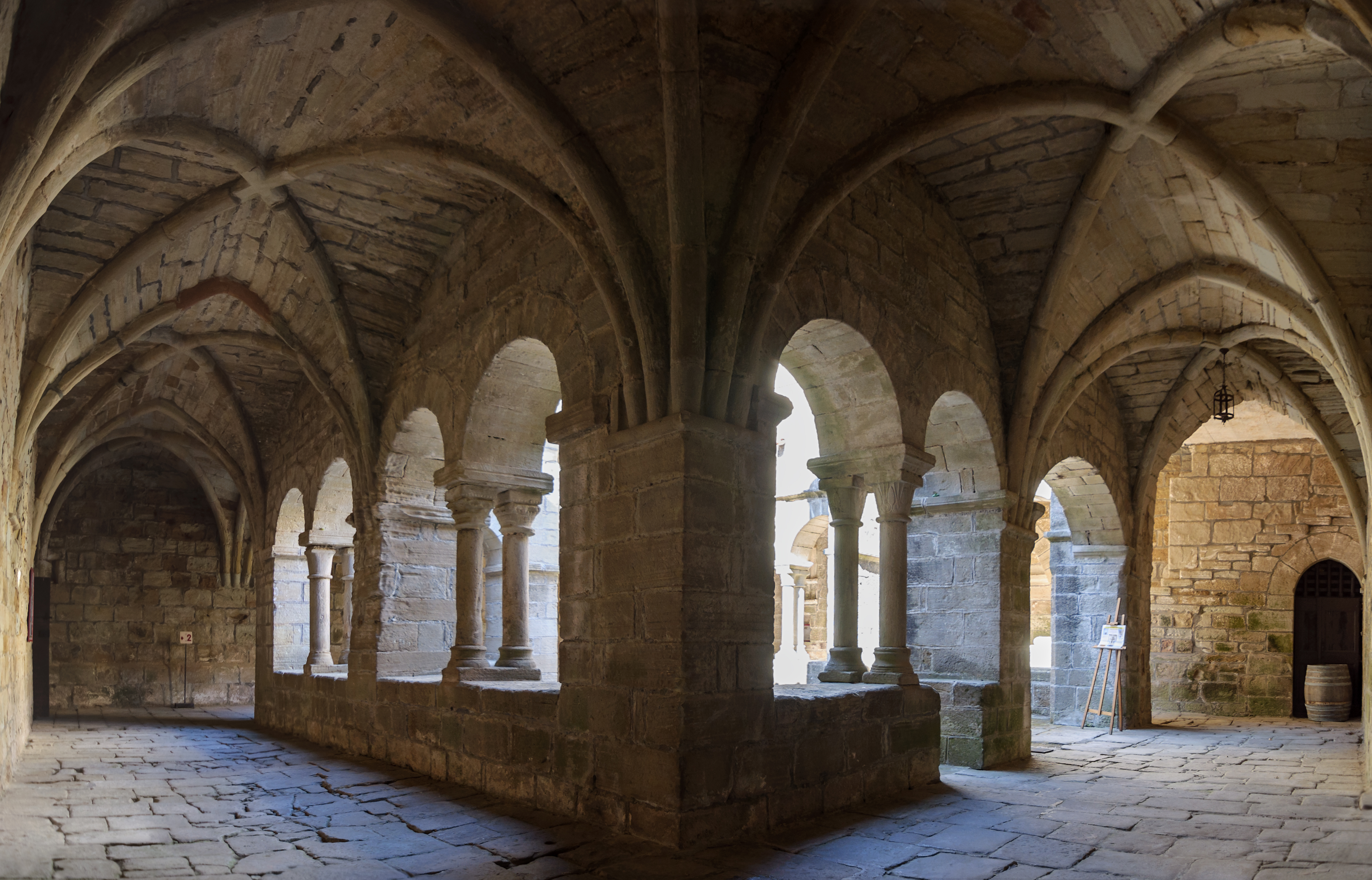 The cloister of the Saint-Michel de Grandmont Priory in Saint-Privat, Hérault, France .